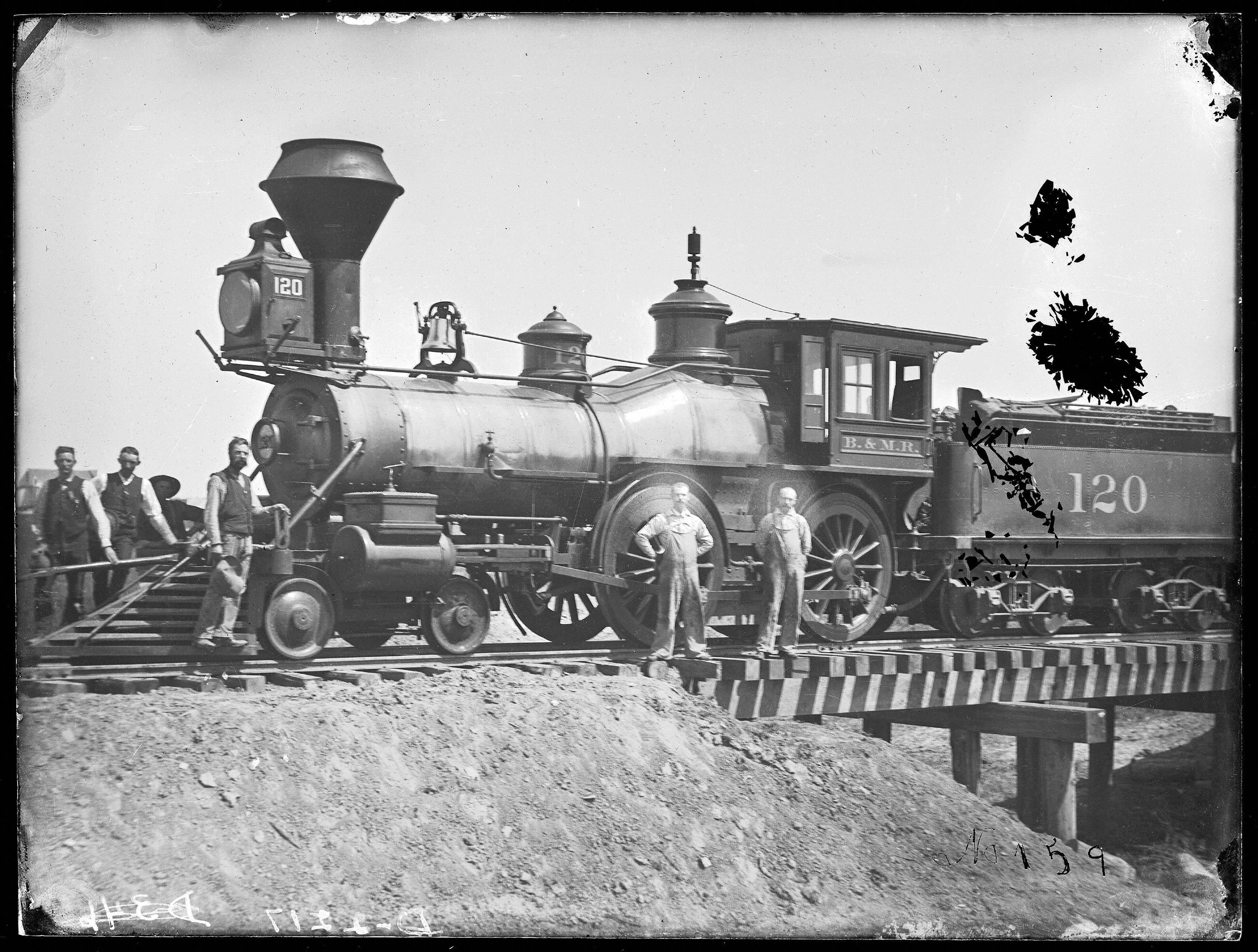 Burlington engine number 120, the first train into Broken Bow, Nebraska.